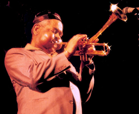 Dizzy Gillespie in a Concert, 1988, Edited